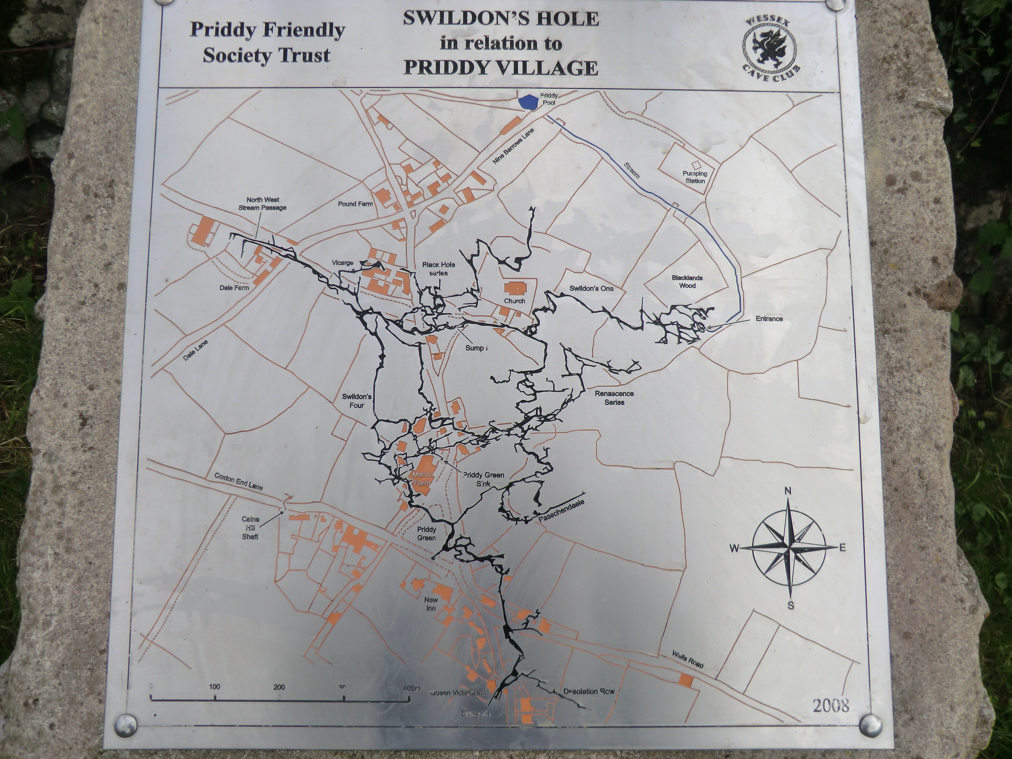 Plan of Swildon's Hole (cave) in relation to the village of Priddy, Somerset, as shown on a plaque displayed near the village green (adjacent to the entrance to Priddy Green Sink as shown on the plan)